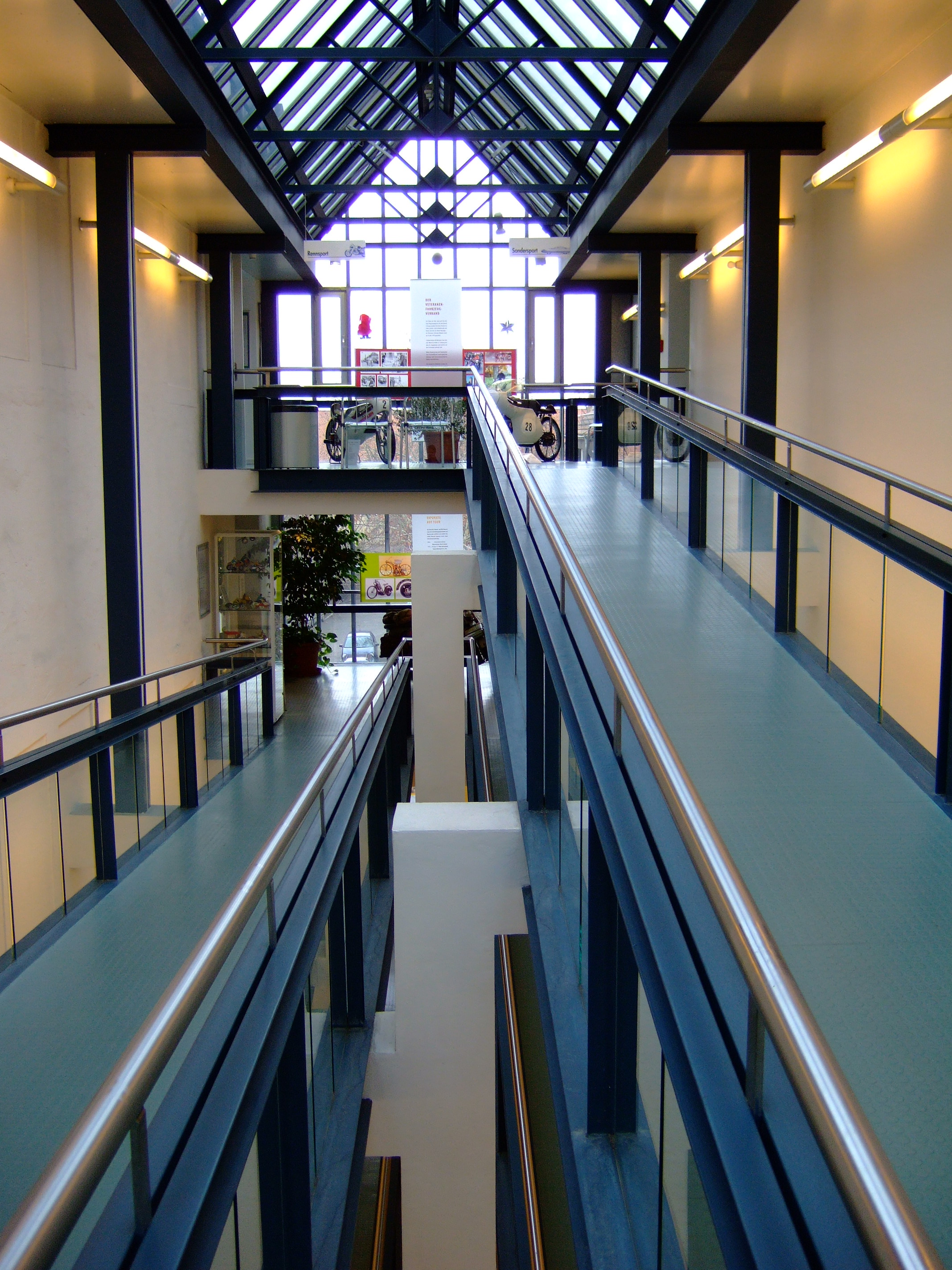 Inclined planes of the staircase at the Deutsches Zweirad- und NSU-Museum